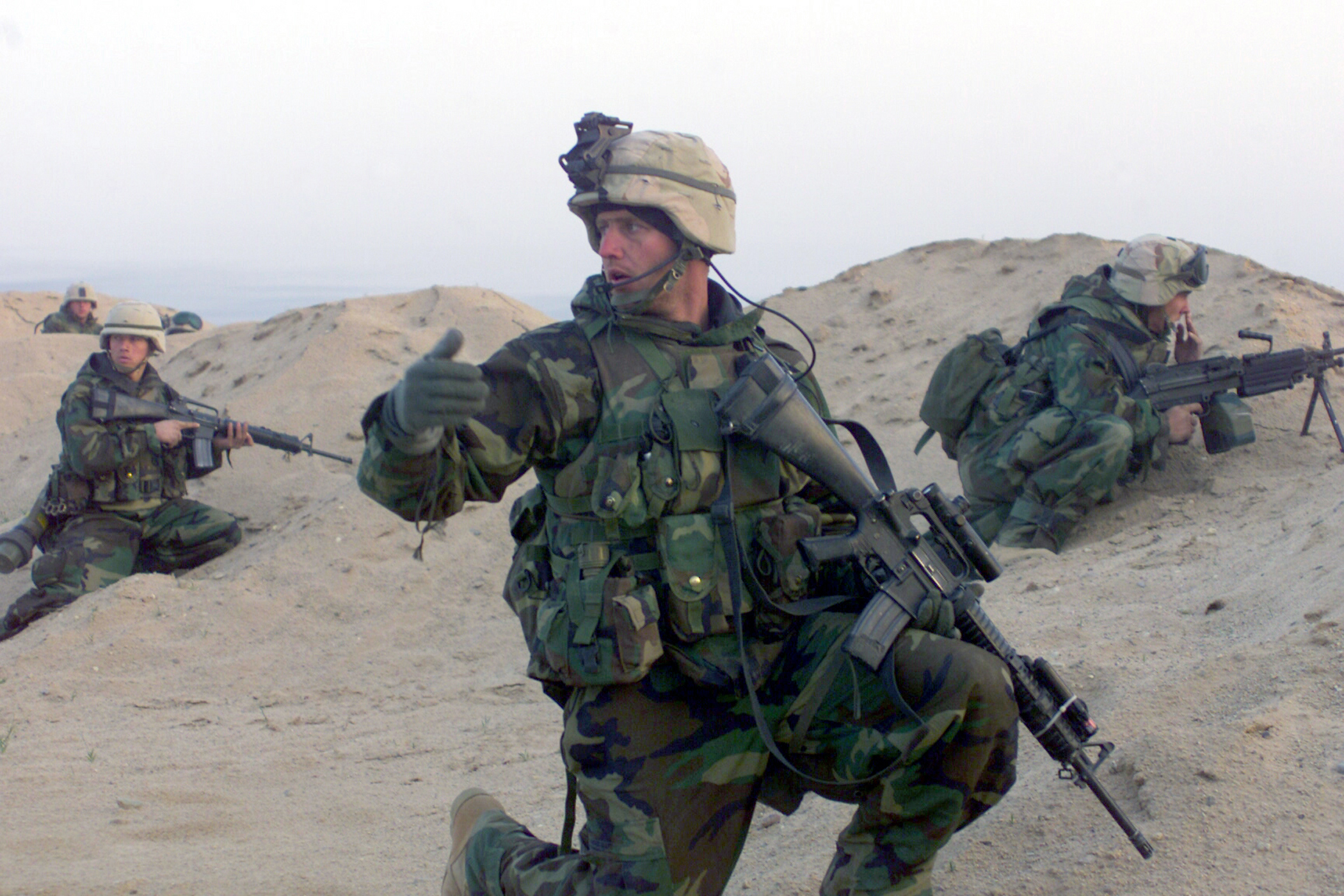 Zubayr, Iraq (Mar. 23, 2003) -- Sgt. Jeff Seabaugh, a squad leader with the 15th Marine Expeditionary Unit (Special Operations Capable) (15th MEU (SOC)), moves his Marines to their objective during a mission in support of Operation Iraqi Freedom. Operation Iraqi Freedom is the multi-national coalition effort to liberate the Iraqi people, eliminate Iraq’s weapons of mass destruction, and end the regime of Saddam Hussein. U.S. Marine Corps photo by Lance Cpl. Brian L. Wickliffe. (RELEASED)